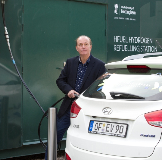 Quentin Willson refuelling the Hyundai ix35 Fuel cell car with HFuel at Nottingham University